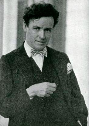 American actor and director John Griffith Wray, on page 12 of the April 1924 The Silver Sheet.